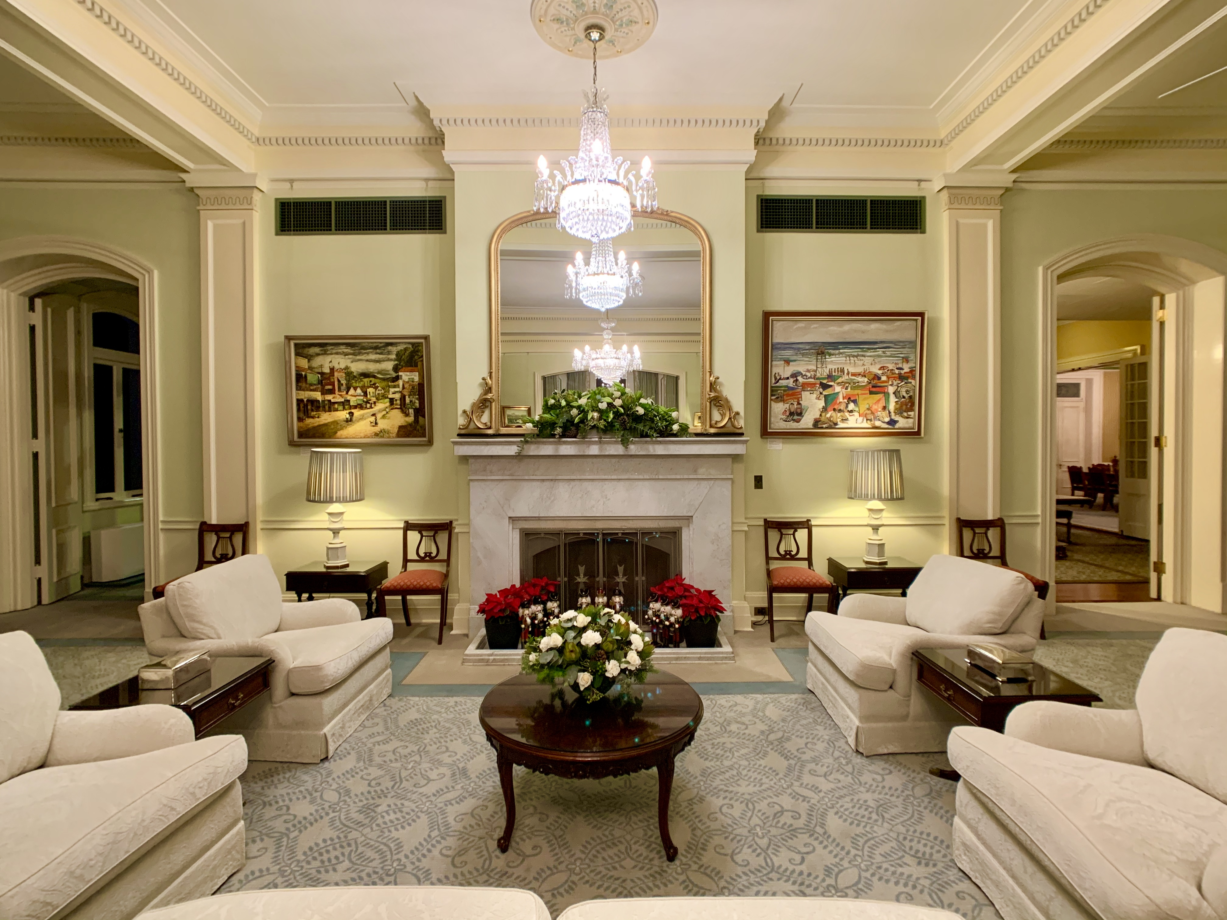 Christmas decorations in the Reception Room, Government House, Brisbane, Australia, 2019